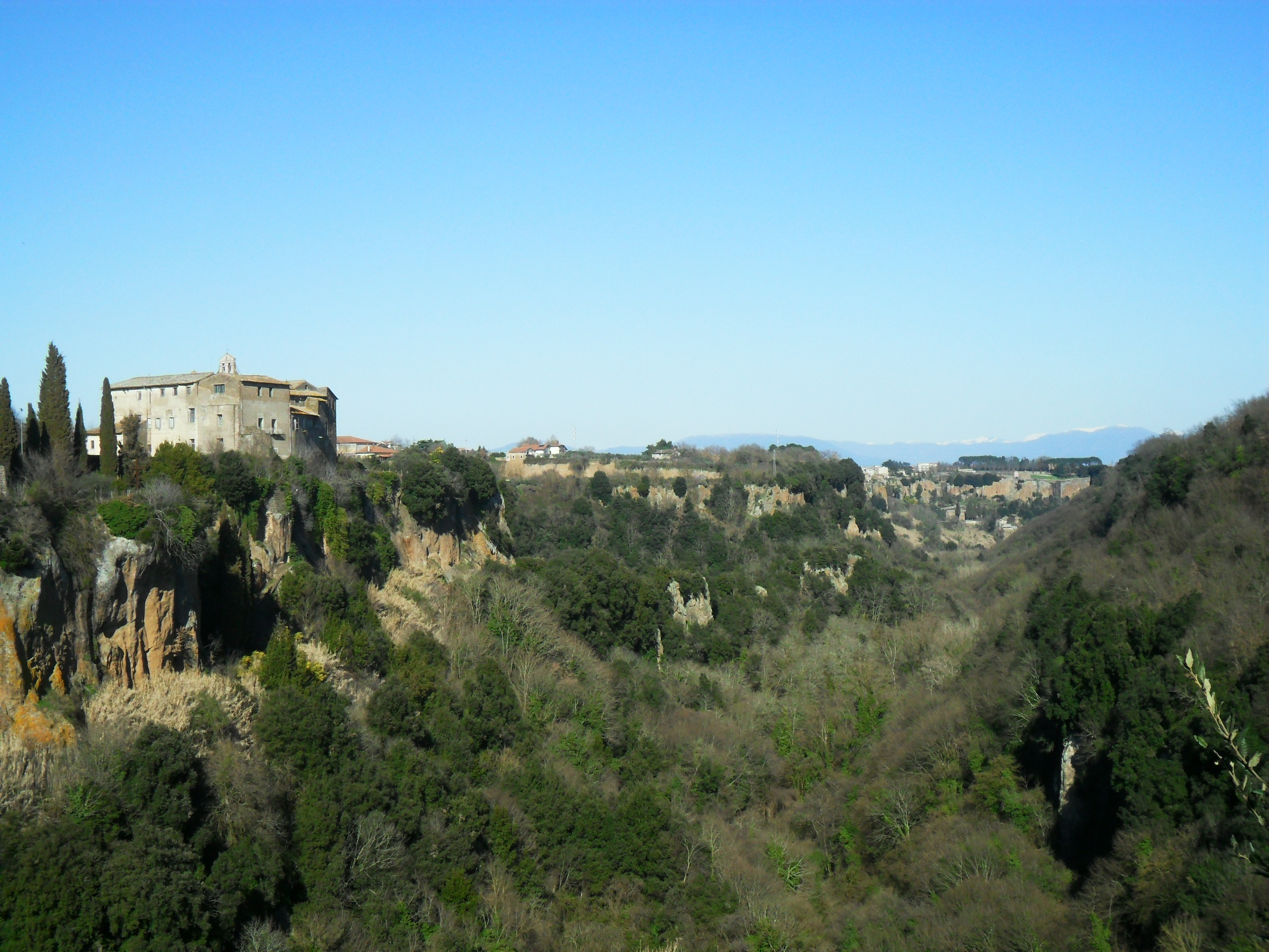 View of the Suppentonia valley under the Saint Bernard monastery in Nepi